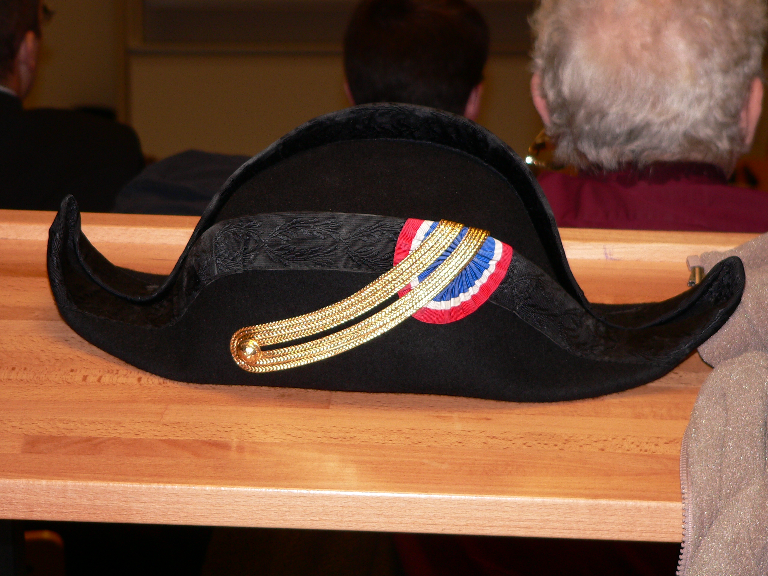 Bicorne hat of the dress uniform of the students of École polytechnique